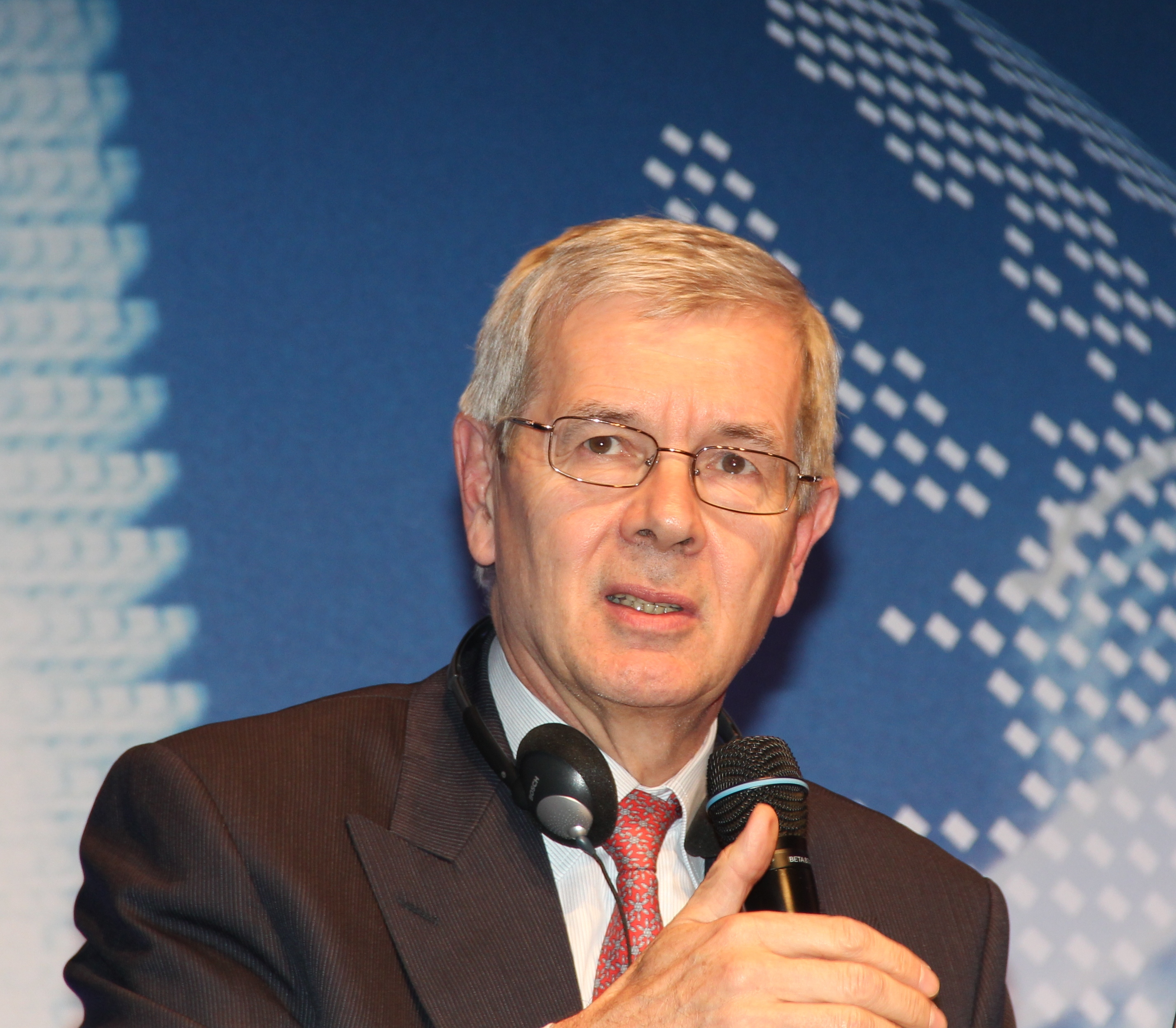 Philippe Varin - CEO of Automotive company PSA Peugeot Citroen, France